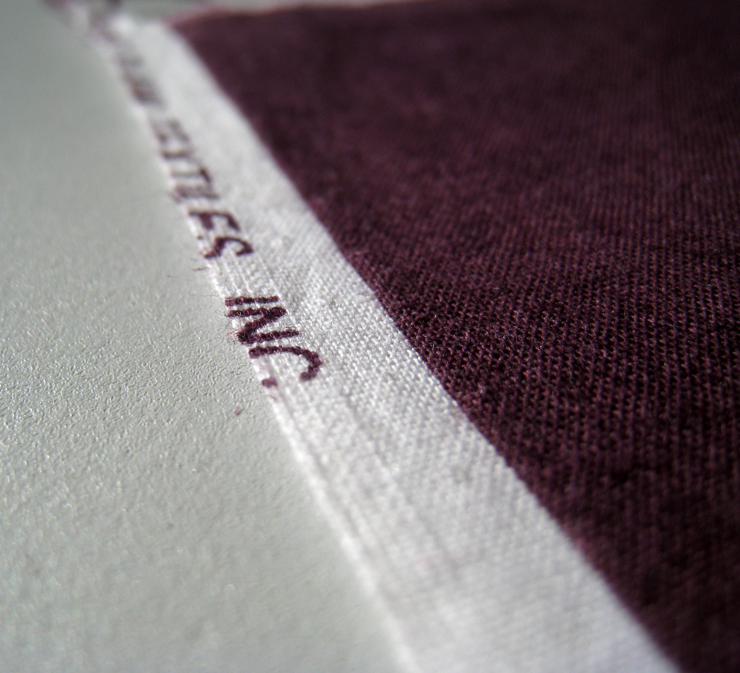 The selvage, or selvedge, of a piece of woven fabric. For printed fabric, the edge is often printed with information about the manufacturer.